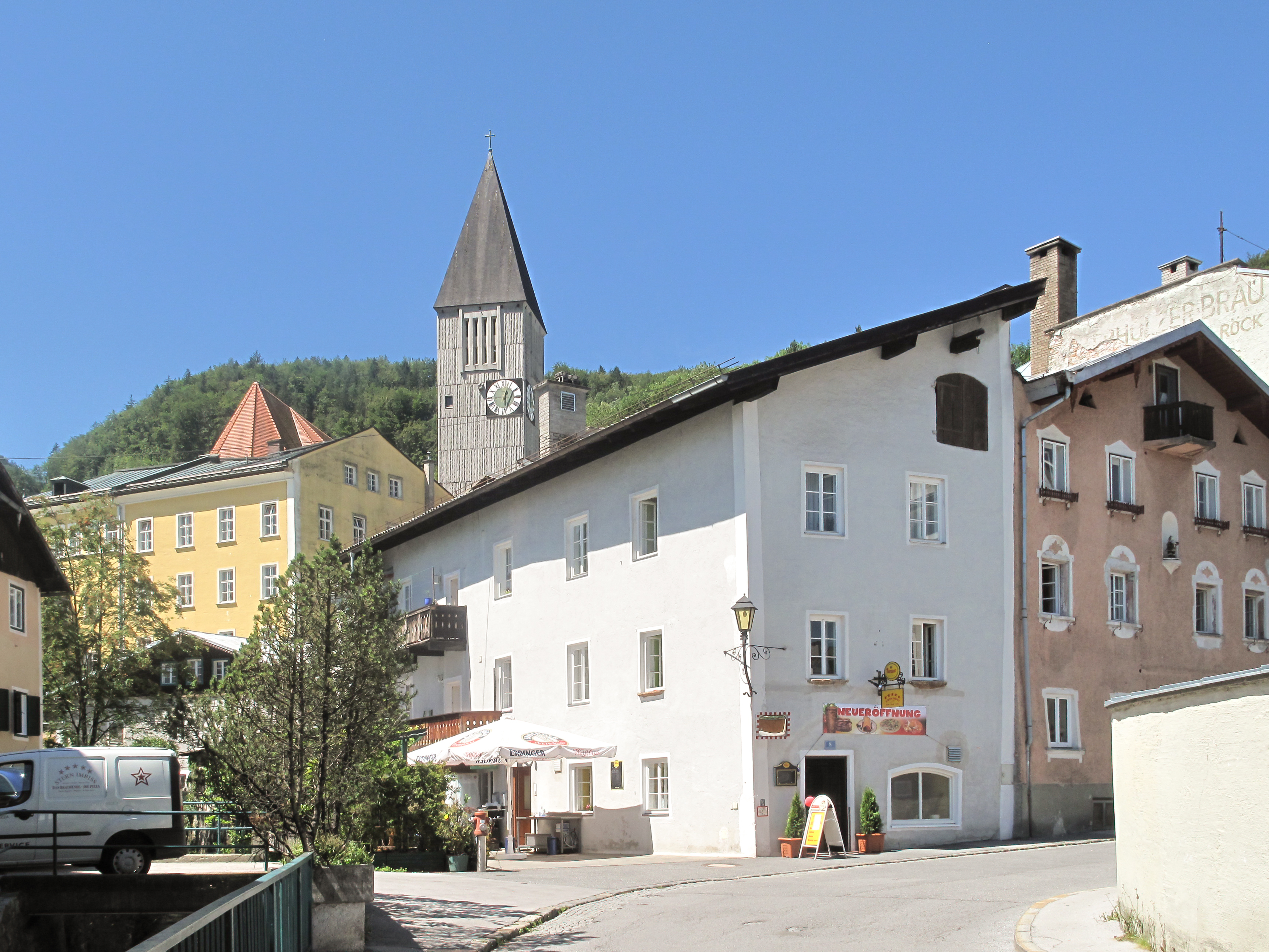 Hallein, street with churchtower